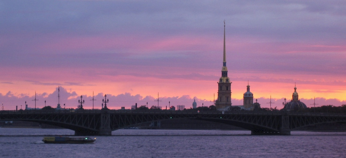 Sunset on the Neva river in St. Petersburg.